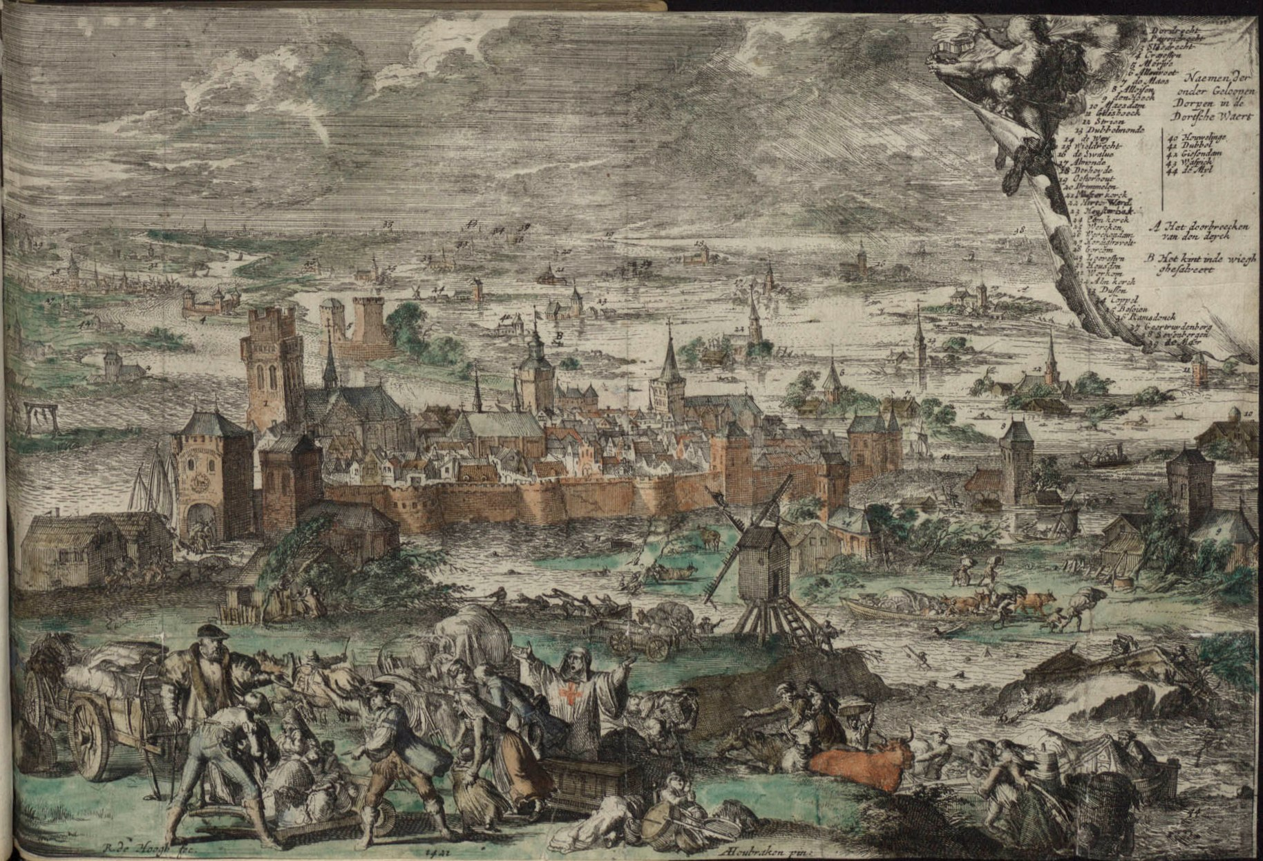 Scene of destruction during St. Elisabeth's flood of 17-18 November 1421, from Matthys Balen Jansz's book Beschryvinge der stad Dordrecht